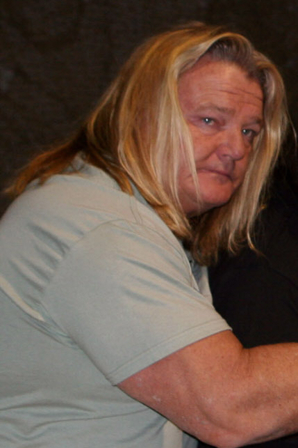 Greg "The Hammer" Valentine during the "Legends of Wrestling" tour that came to Bagram Air Base, Afghanistan.